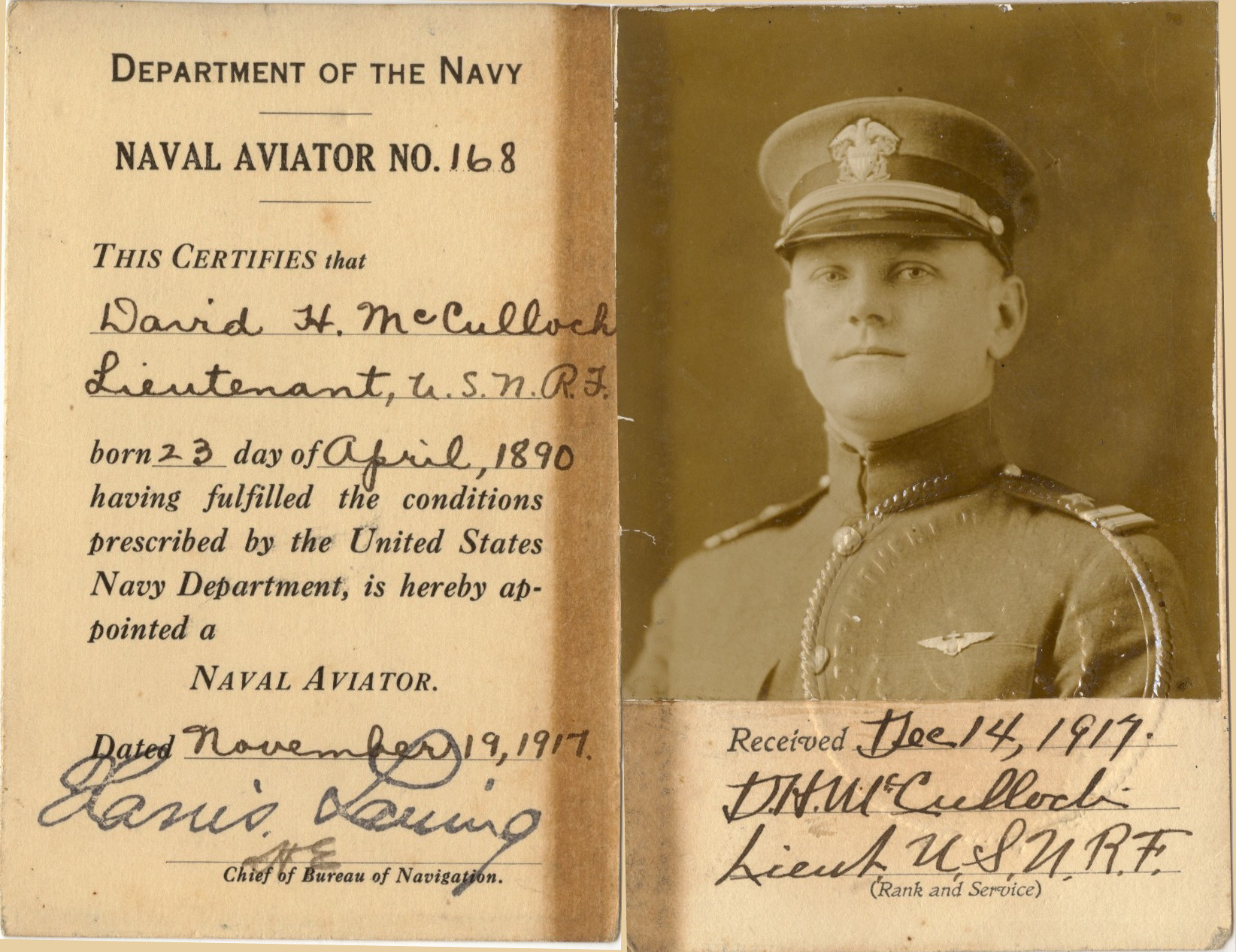 Lieutenant David H. McCulloch US Naval Reserve Forces Naval Aviator ID Naval Aviator number 168